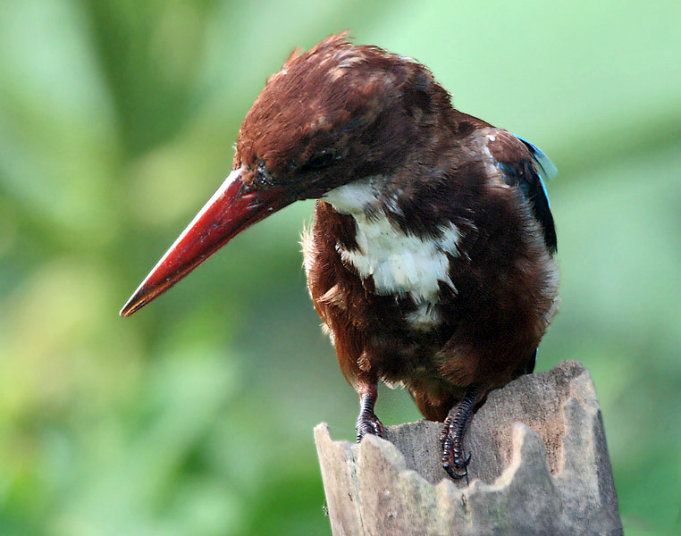 White-throated Kingfisher Halcyon smyrnensis in Kolkata, West Bengal, India.